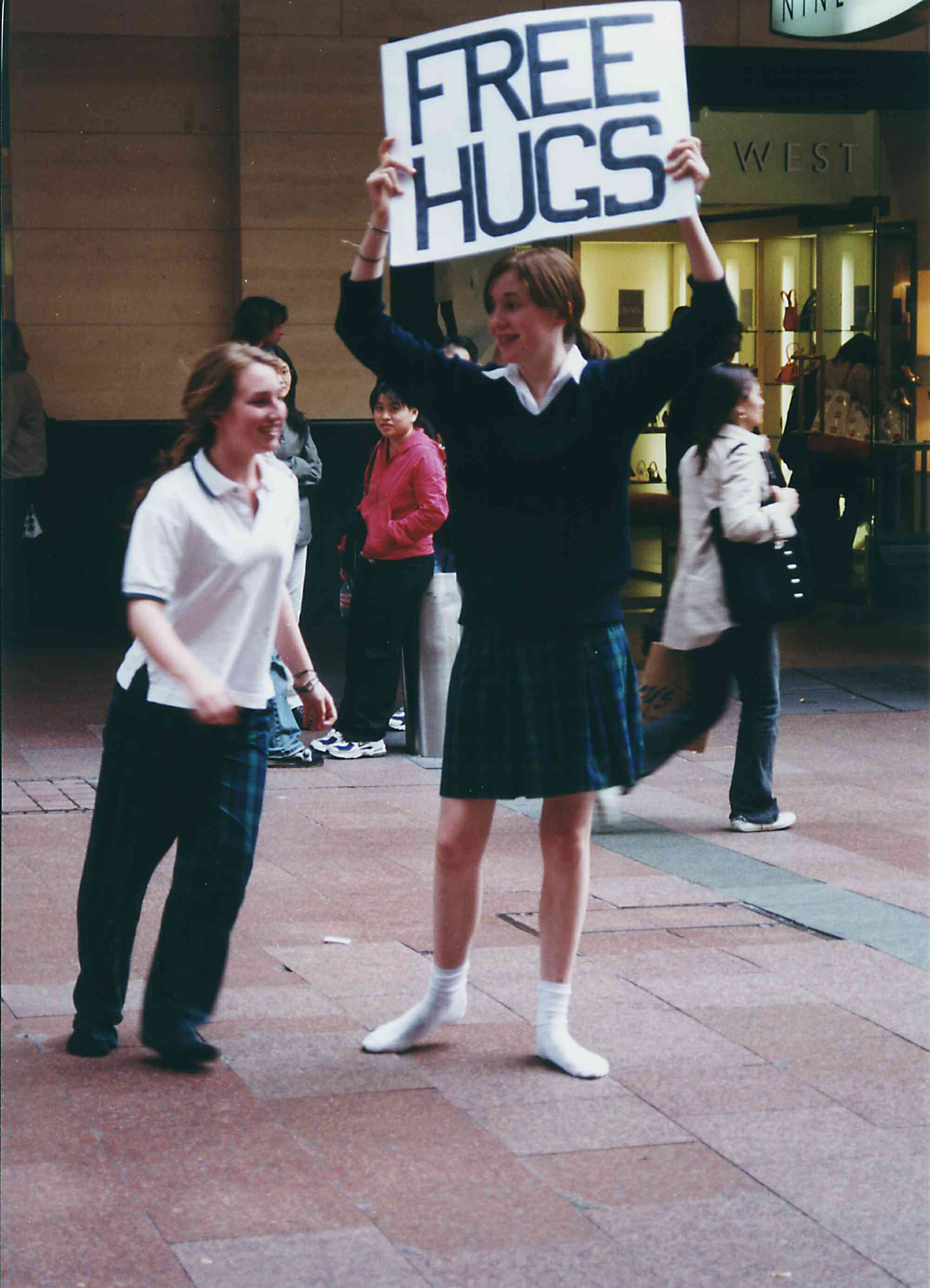 "Free Hugs" in the CBD of Sydney, Australia. This picture was taken in August 2004, supposedly at the very beginning of the "Free Hugs" phenomenon.